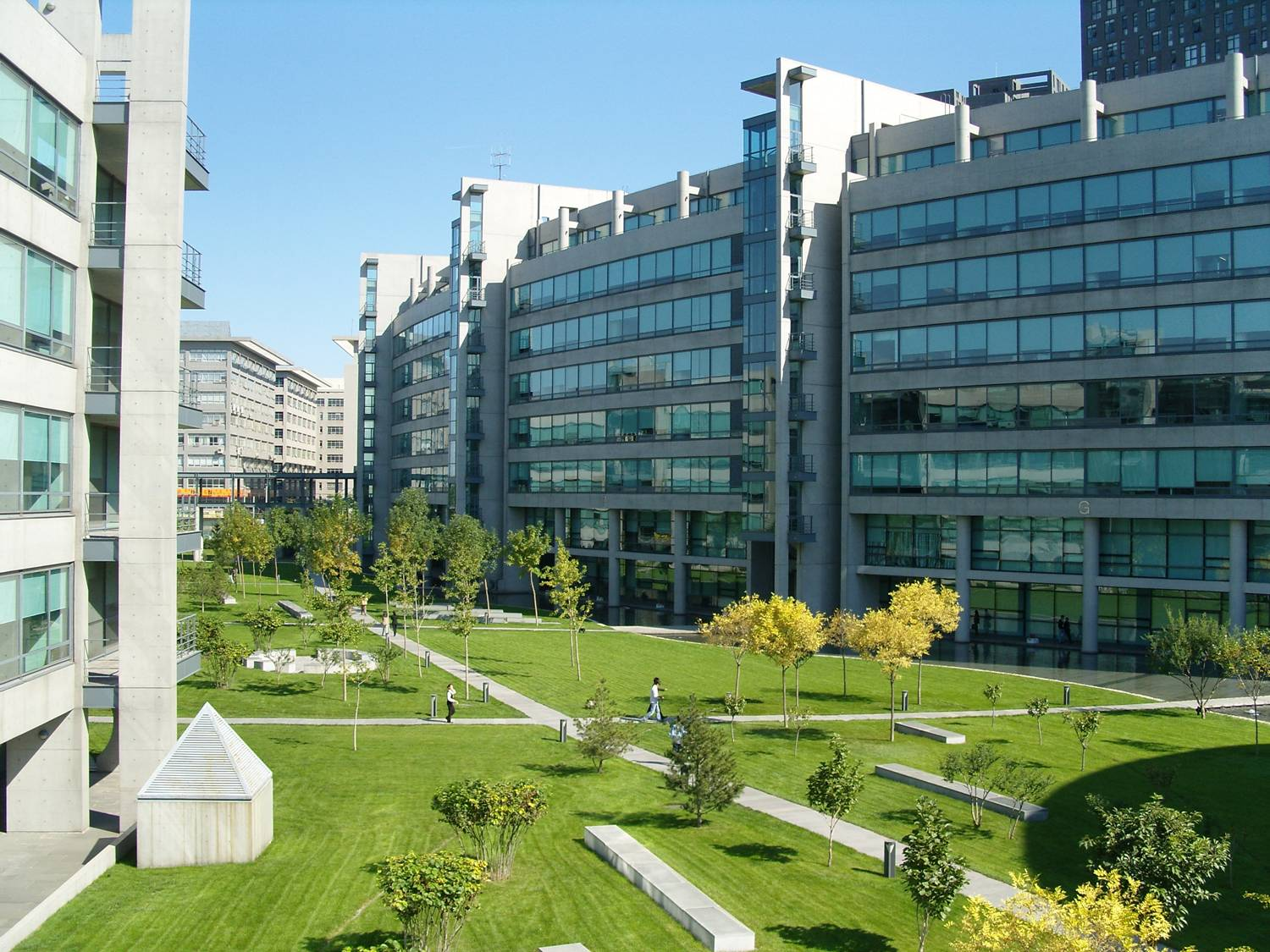 Lenovo R&D Campus in Beijing